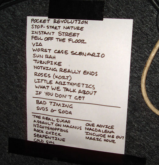 dEUS setlist. Cropped and enhanced from the source.dEUS - Set List for Cafe Du Nord